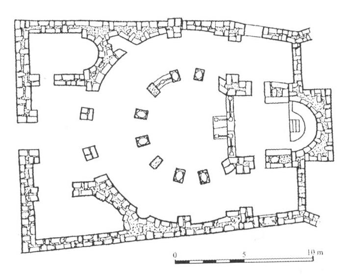 Plan of the round shaped church on the archaeological site Golemo Gradiste, presumably of ancient city Tranupara, near Konjuh, Macedonia